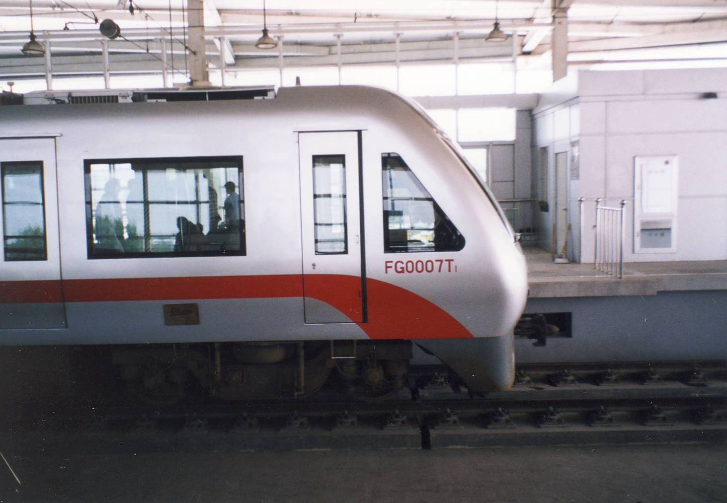 EMU of Dalian Light Rail Line No.3. At Xianglujiao station.